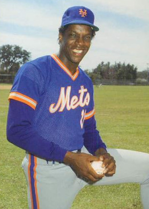 Professional baseball player Dwight Gooden